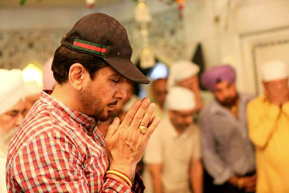 Mr Maan Praying